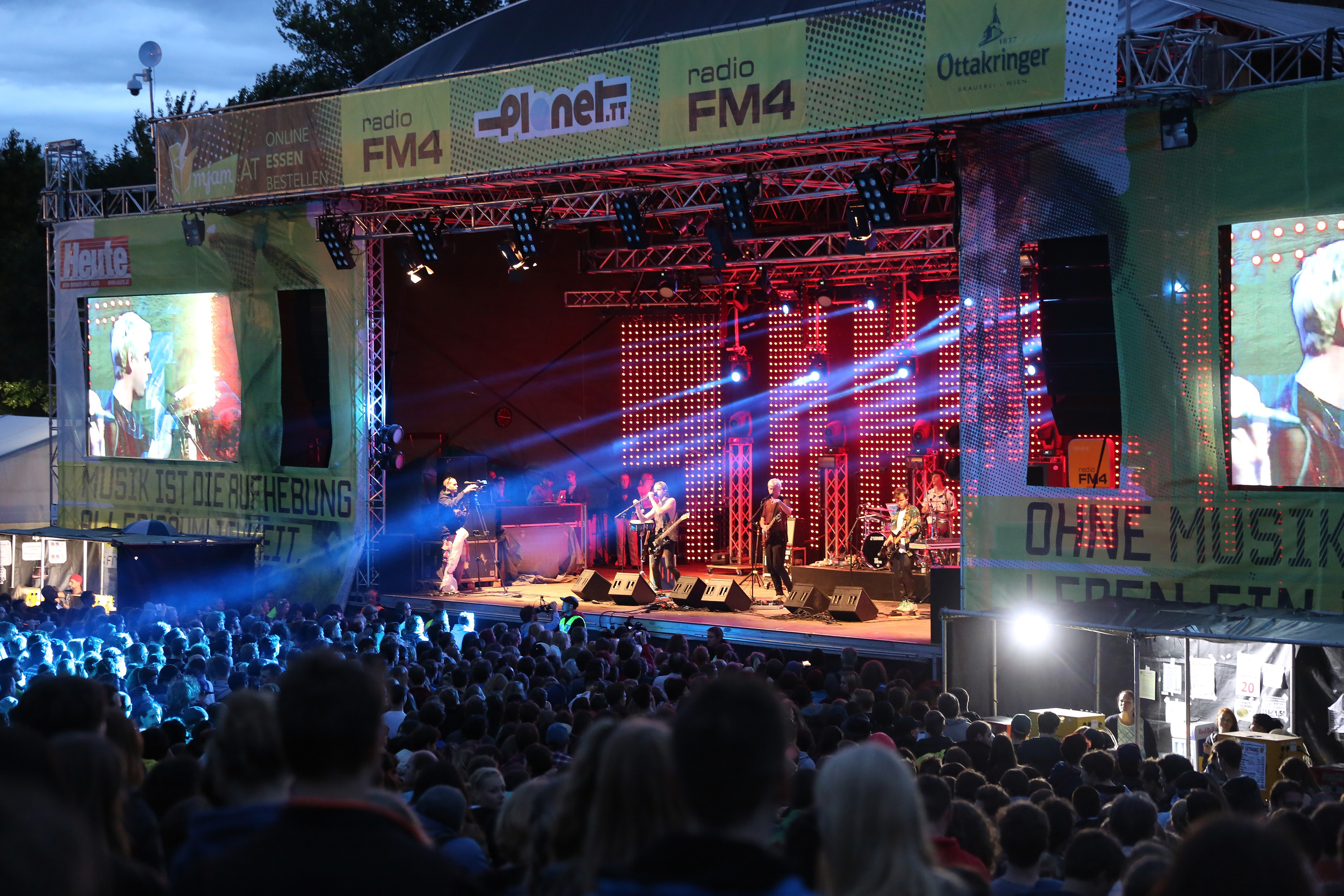 Bilderbuch at Donauinselfest 2014 in Vienna, Austria